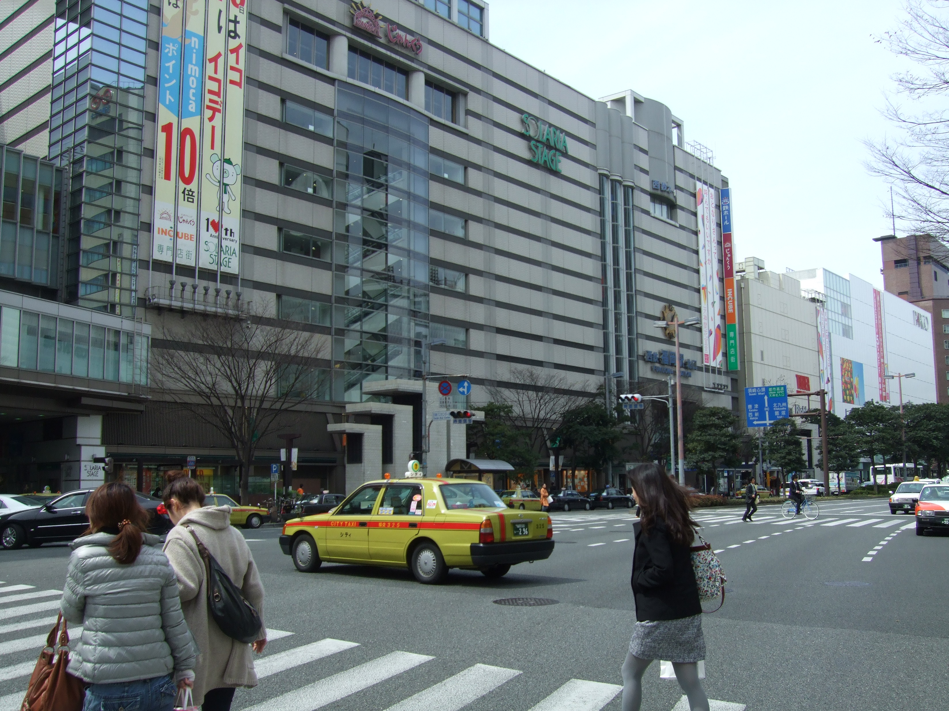 Solaria Stage Building in Tenjin, Fukuoka City, Japan